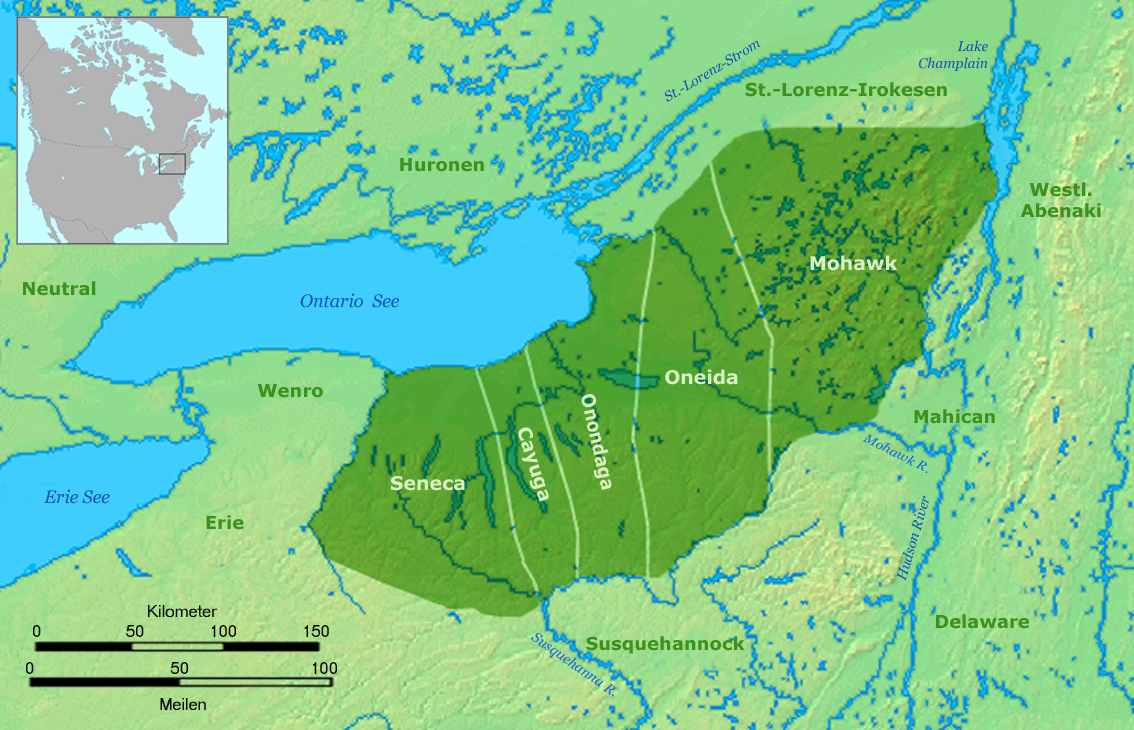 Tribal territory of Iroquois (Five Nations) about 1650